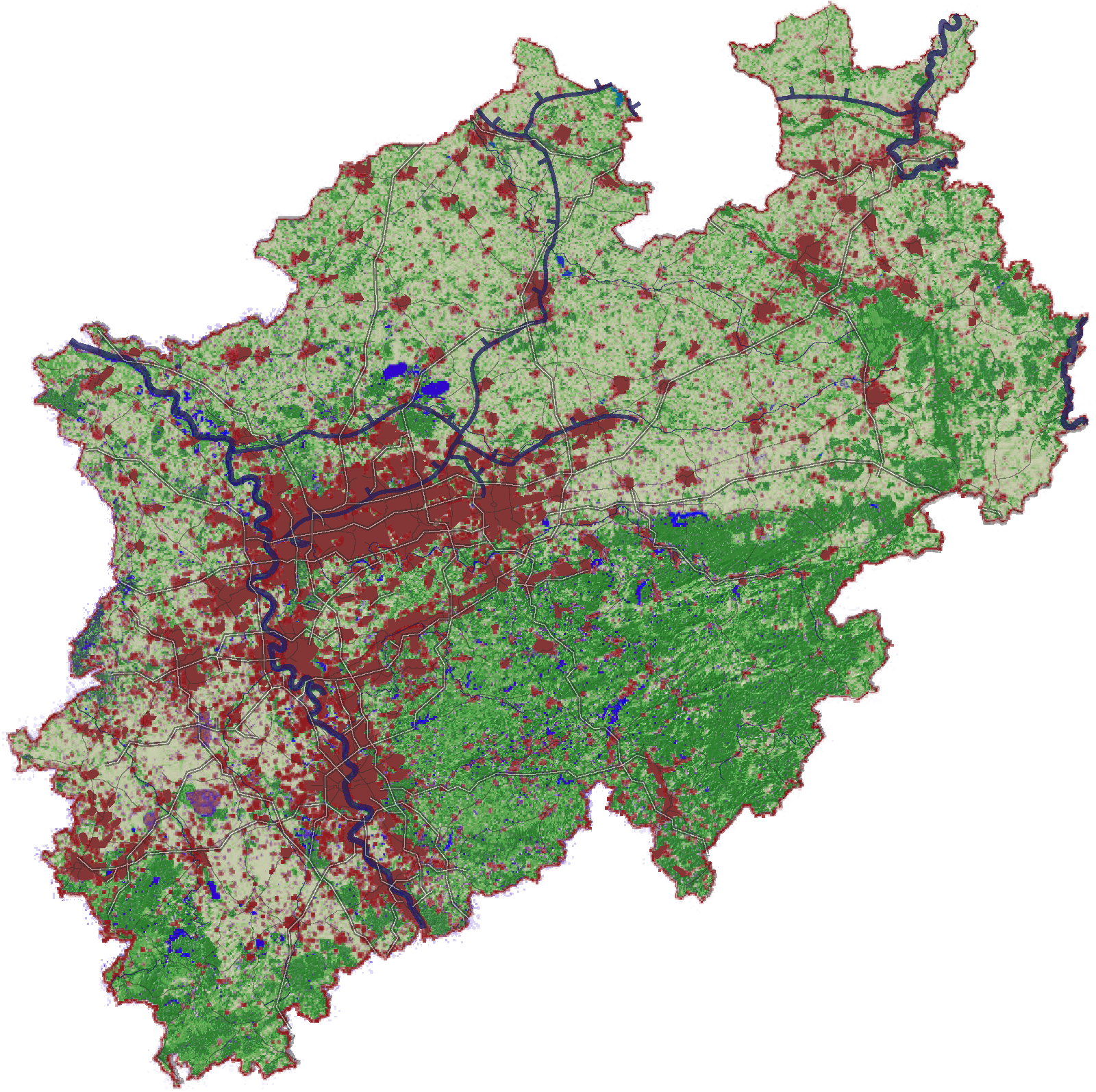 Land usage in the State of North Rhine-Westphalia